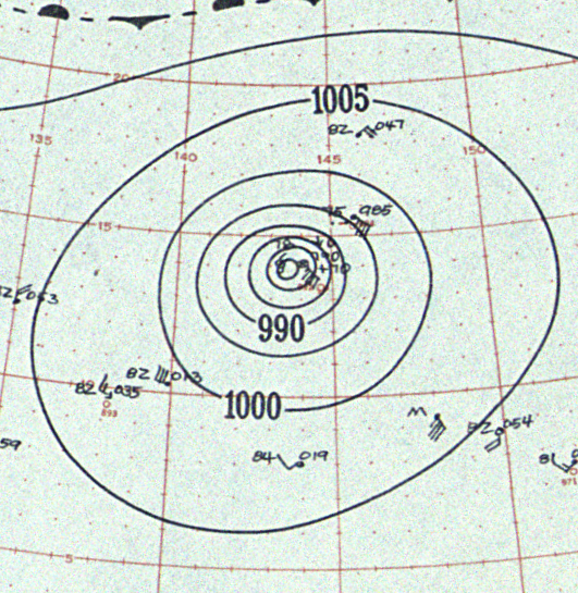 Surface analysis of a typhoon near Guam on November 3, 1940. An intense system, the typhoon caused significant damage to the island.